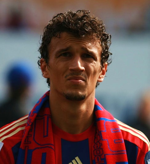 Roman Eremenko